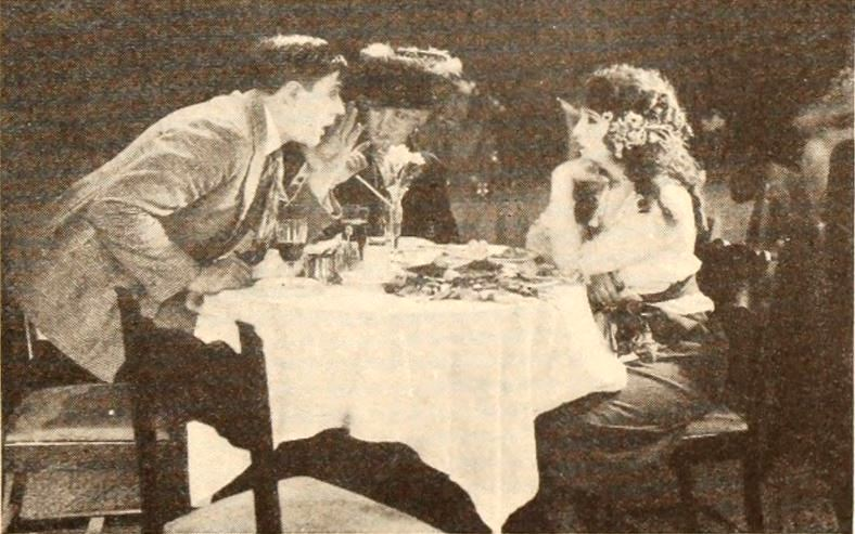 Still from the American romantic comedy film The March Hare (1921) with Bebe Daniels, on page 59 of the October 1921 Photoplay.